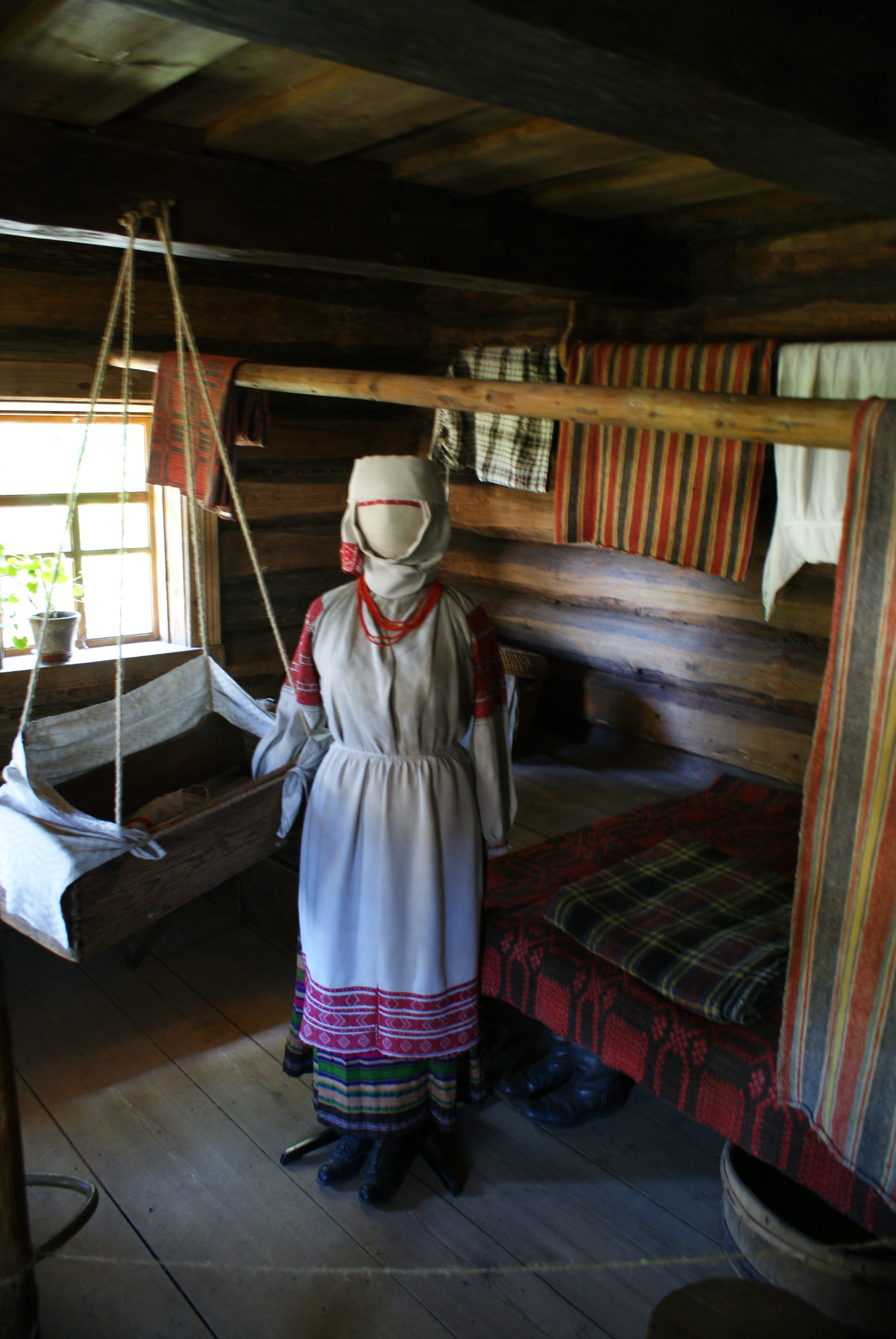 State museum of folk architecture and life, Belarus